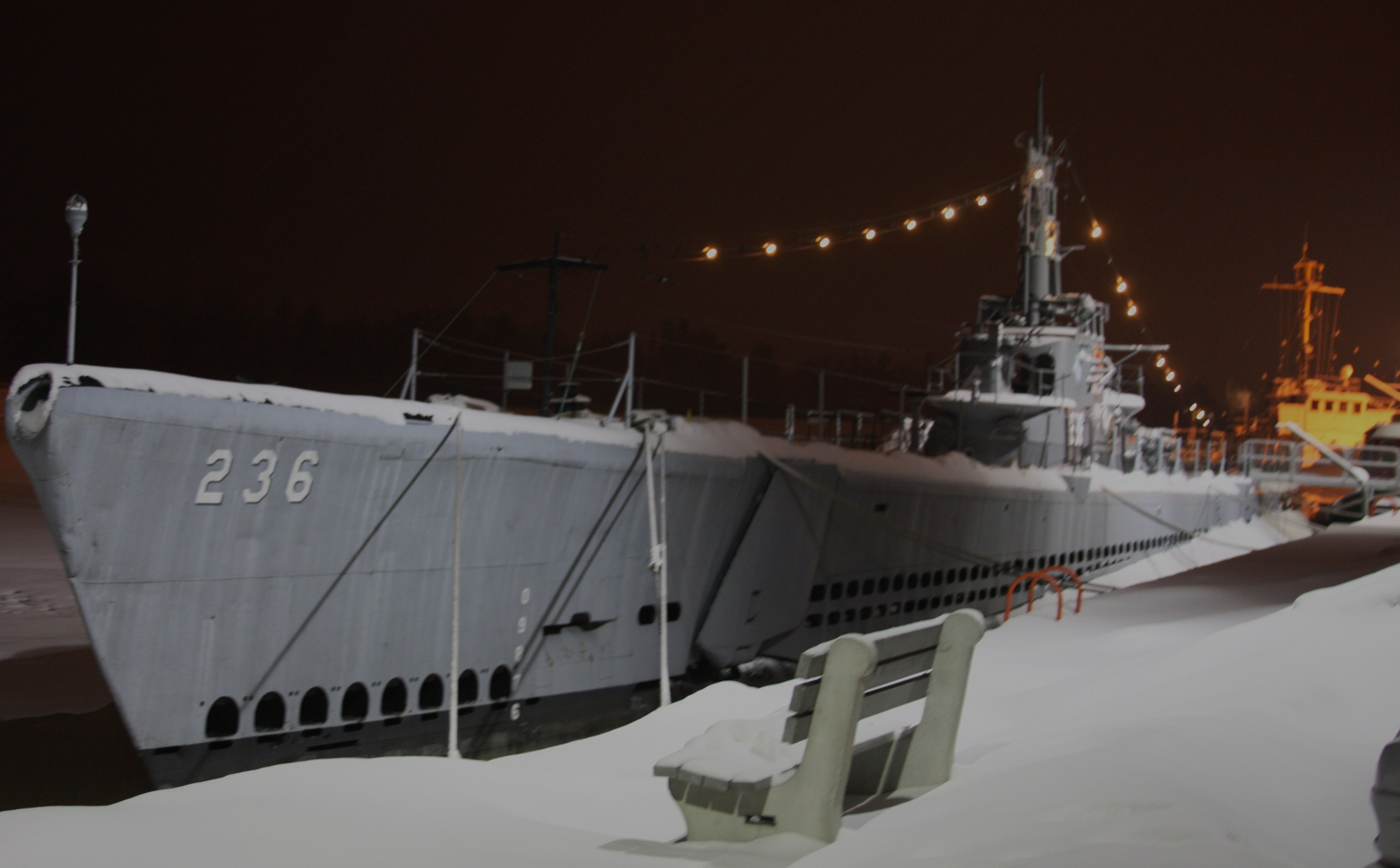 The USS Silversides (SS-236) is a historic submarine, which is moored as a museum ship in Muskegon, Michigan, United States. It is a designated US National Historic Landmark and is listed on the US National Register of Historic Places (NRHP). NRHP reference number 72000453